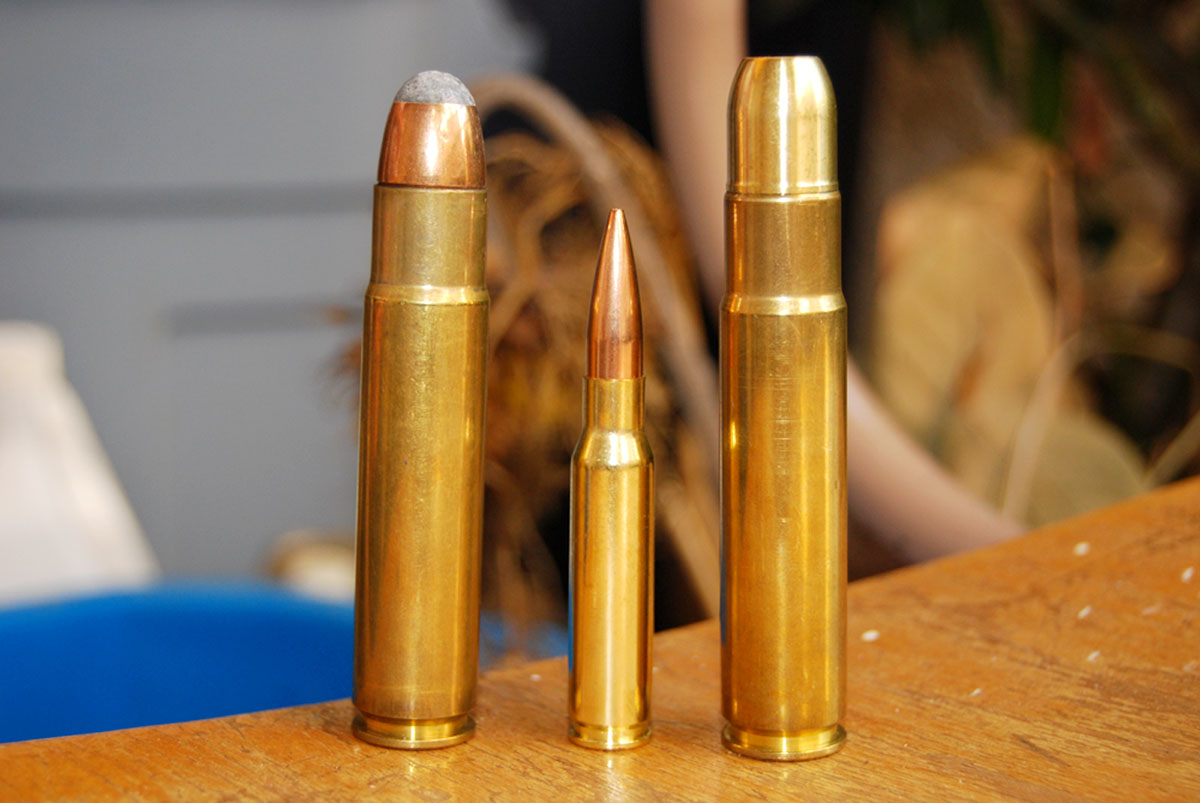 Left to right: .577 Tyrannosaur with 750gr Woodleigh soft, .308 Winchester for comparison, .577 Tyrannosaur with 750 Barnes Banded Solid